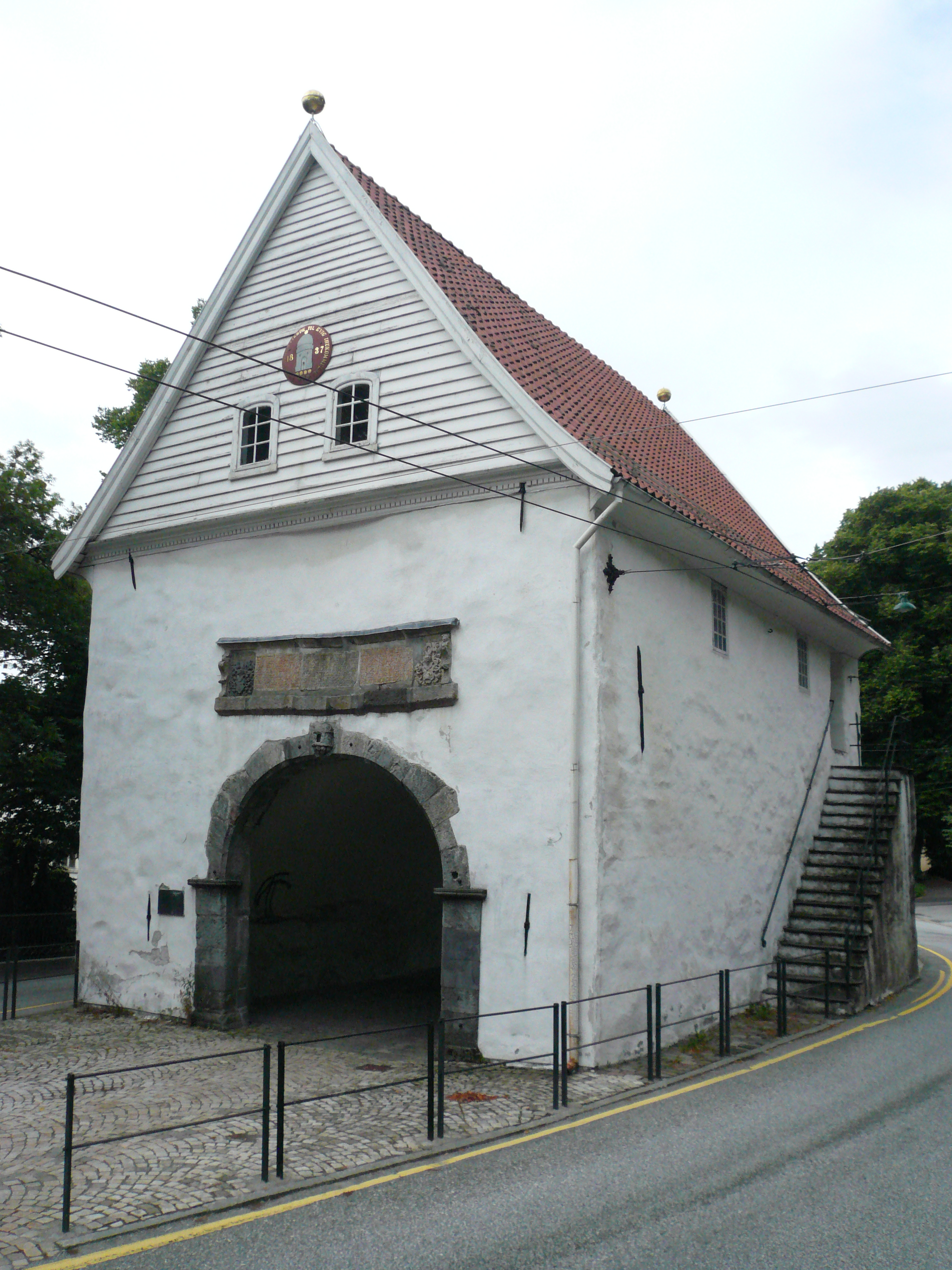 Stadsporten